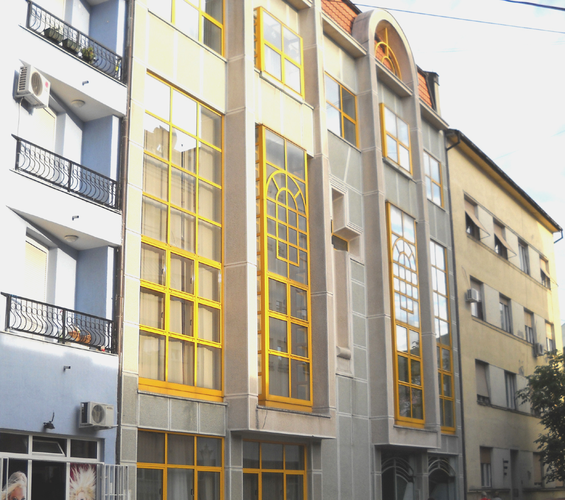 Christian Adventist Church in Novi Sad, built in 2001. Services are performed in Serbian language.